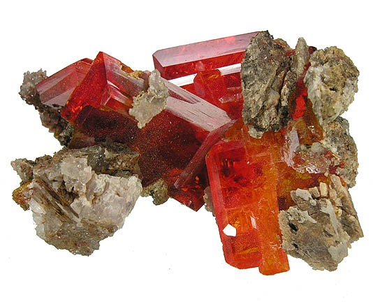 Wulfenite Locality: Red Cloud Mine, Silver District, Trigo Mts, La Paz County, Arizona, USA (Locality at ) Size: 3.5 x 2.4 x 1.8 cm. This piece consists of a group of aesthetic, sharp, tabular, gem/gemmy rich red-orange crystals of Wulfenite crystals measuring up to 2.3 cm with minor Limonite matrix. Ex. Richard Kosnar Collection.